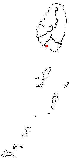 Kingstown, Saint Vincent and the Grenadines Location Map; created with the GIMP. Made by User:Acntx.